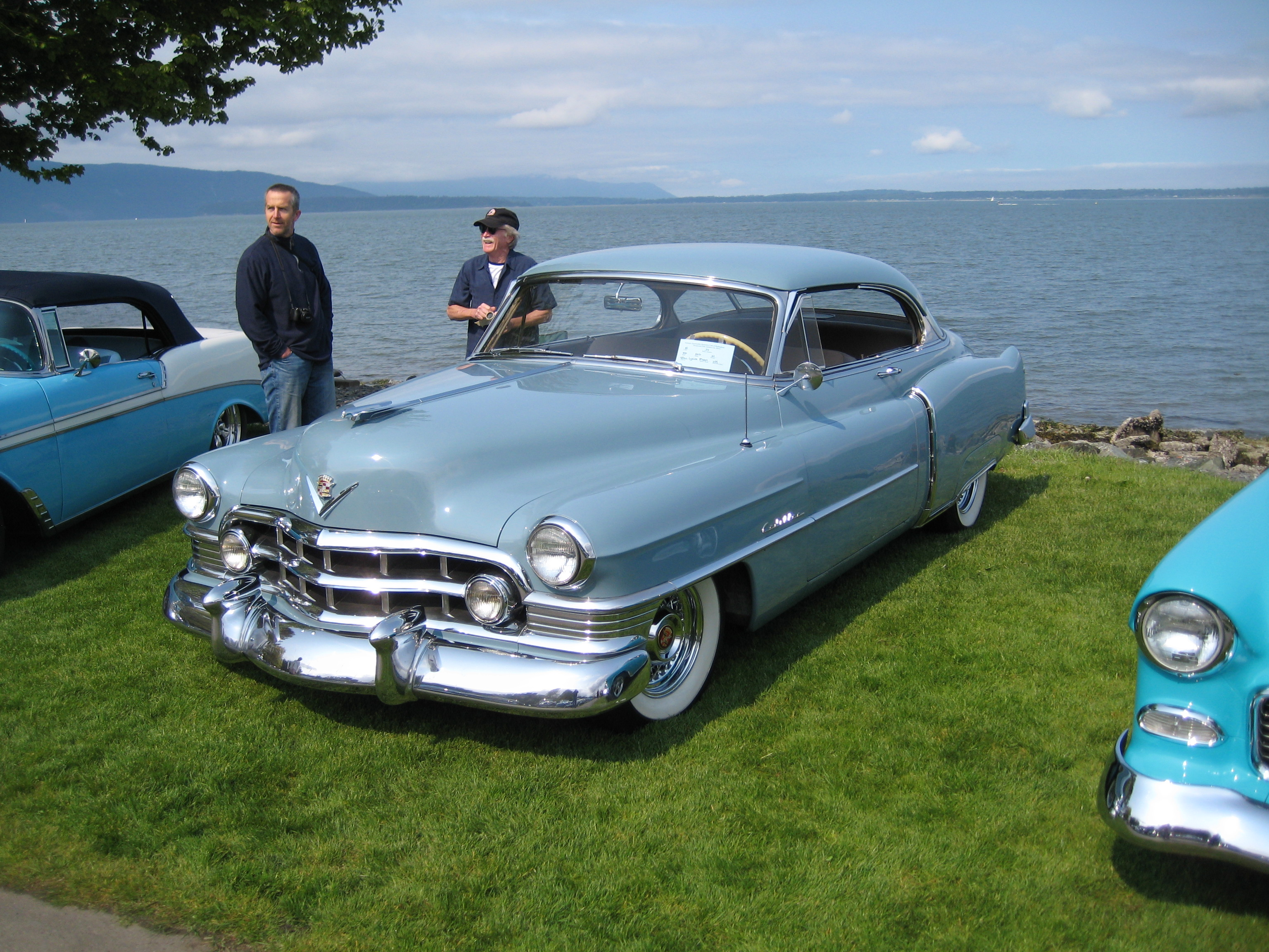 More cars from this great show, on a sunny spring day, in Bellingham, Washington